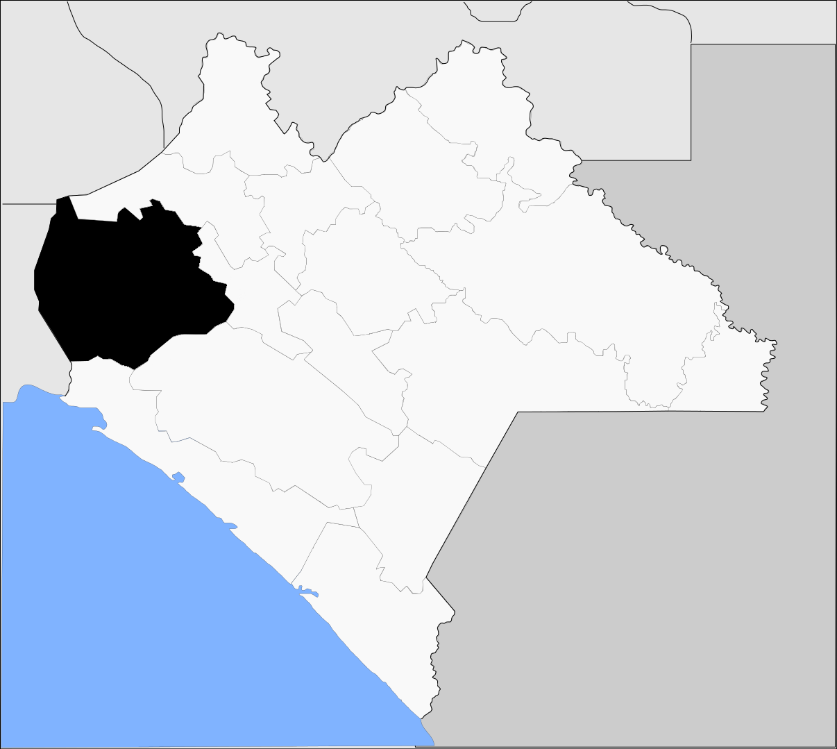 Map of the Region II - Valles Zoque in the State of Chiapas.